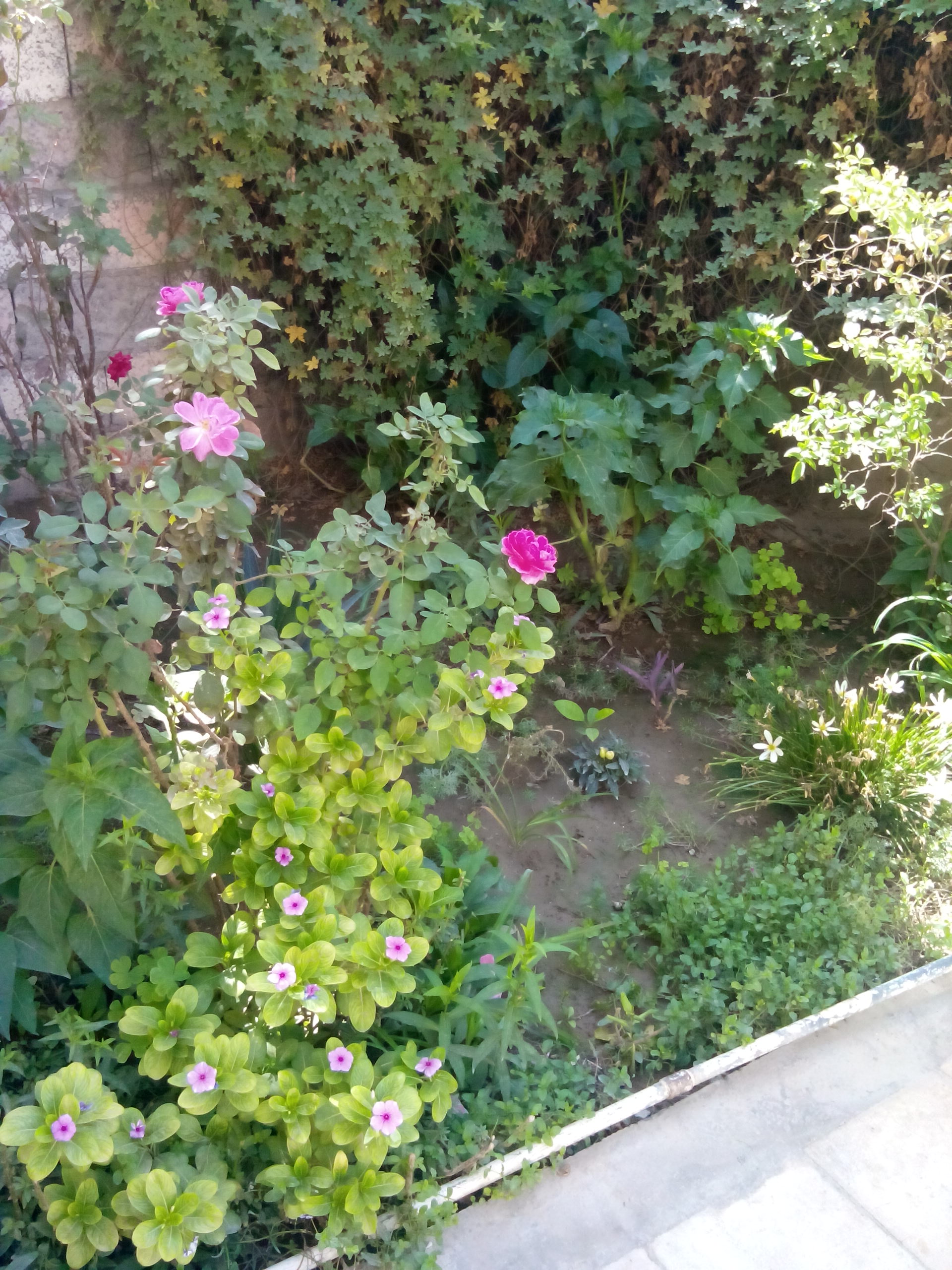 Flower's in the garden in Baghdad, Iraq